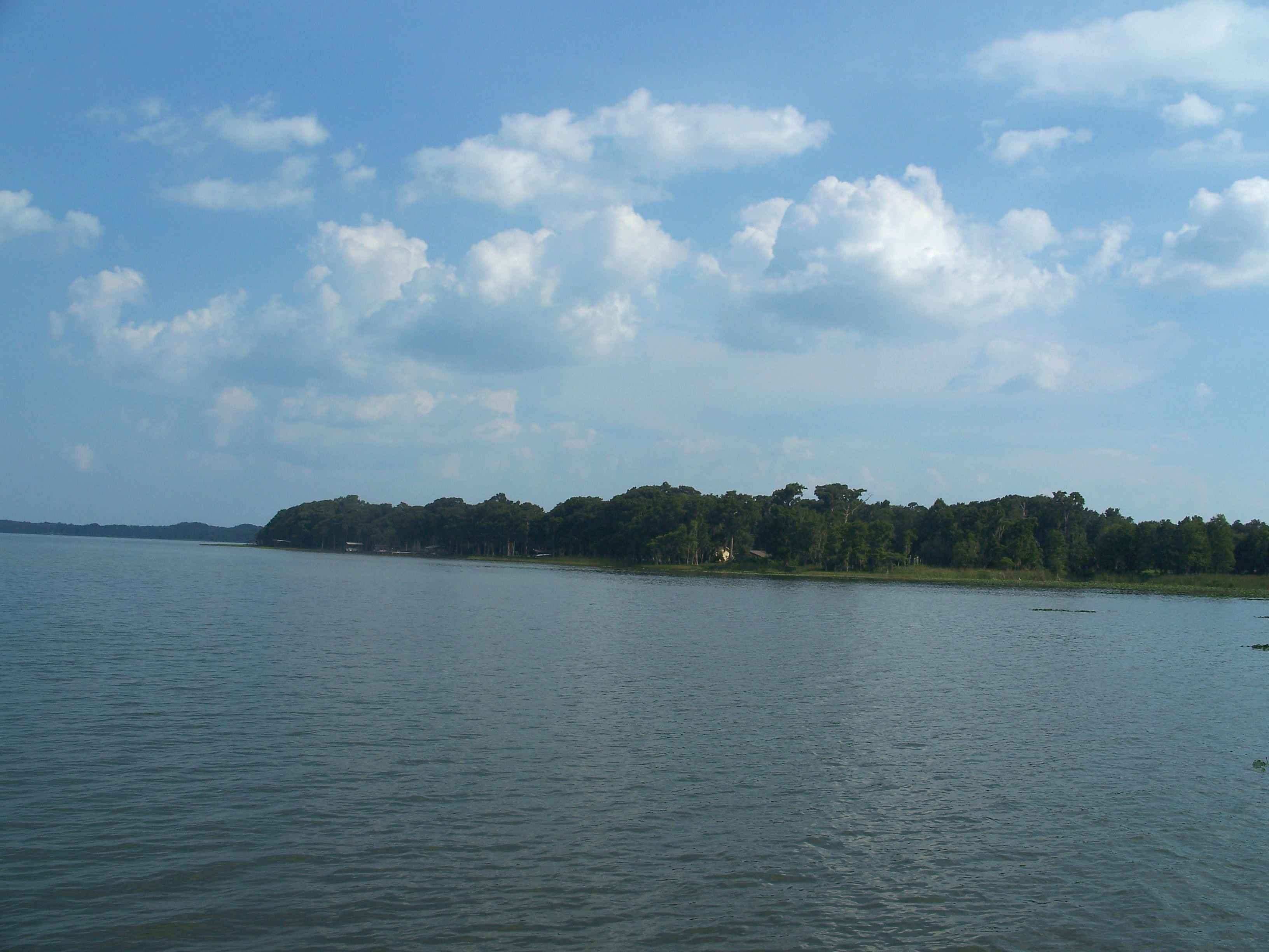 Leesburg, Florida: Western shore of Lake Harris. View is from Singletary Park, on US 27.